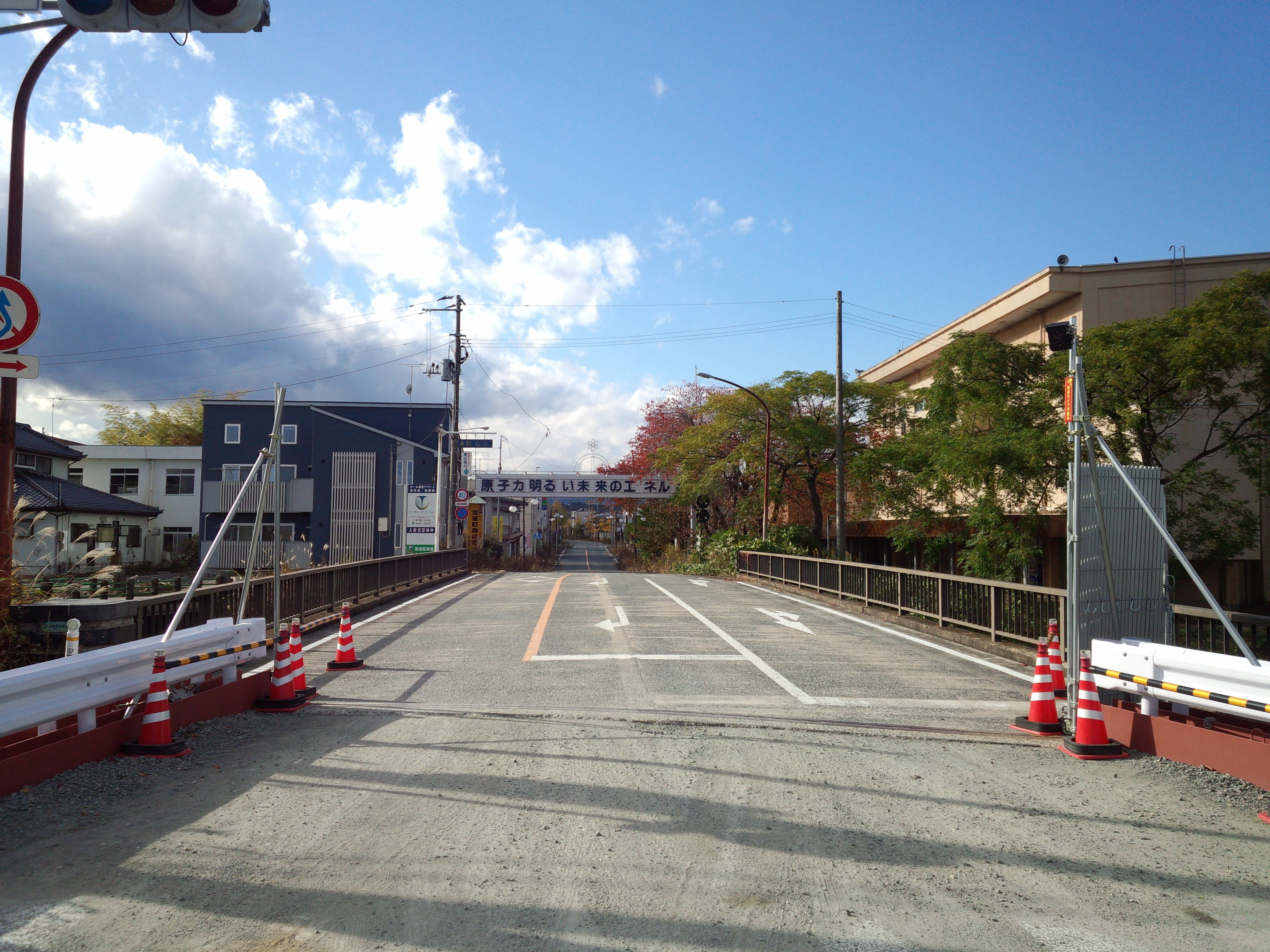 Slogan sign "nuclear (power generation), a bright and future (source of) energy" in Futaba town, Fukushima pref.